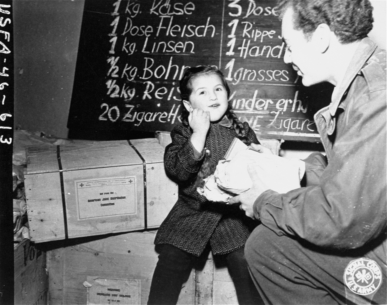 Harry Weinsaft of the American Jewish Joint Distribution Committee, gives food to three-year-old Renati Rulhater, a Jewish DP child in Vienna, Austria. The campaign to distribute food to needy refugees in Vienna was sponsored by the Jewish Joint Welfare Association of Vienna in conjunction with the JDC.